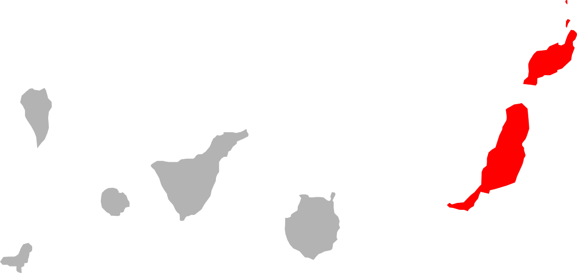 Crocidura canariensis range map.